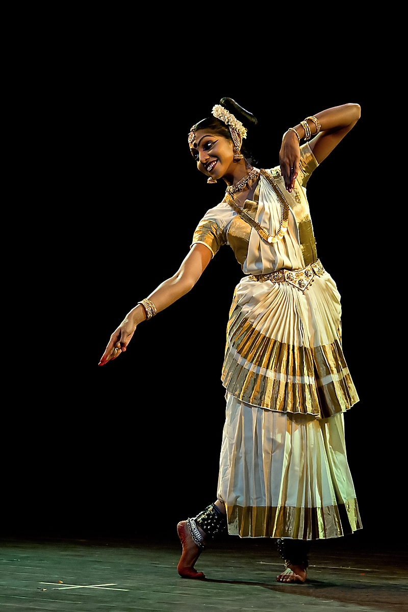 Mohiniyattam, The Classical Dance of Kerala, India - Photos of my performance at Nrityabharathi Festival, Bengaluru